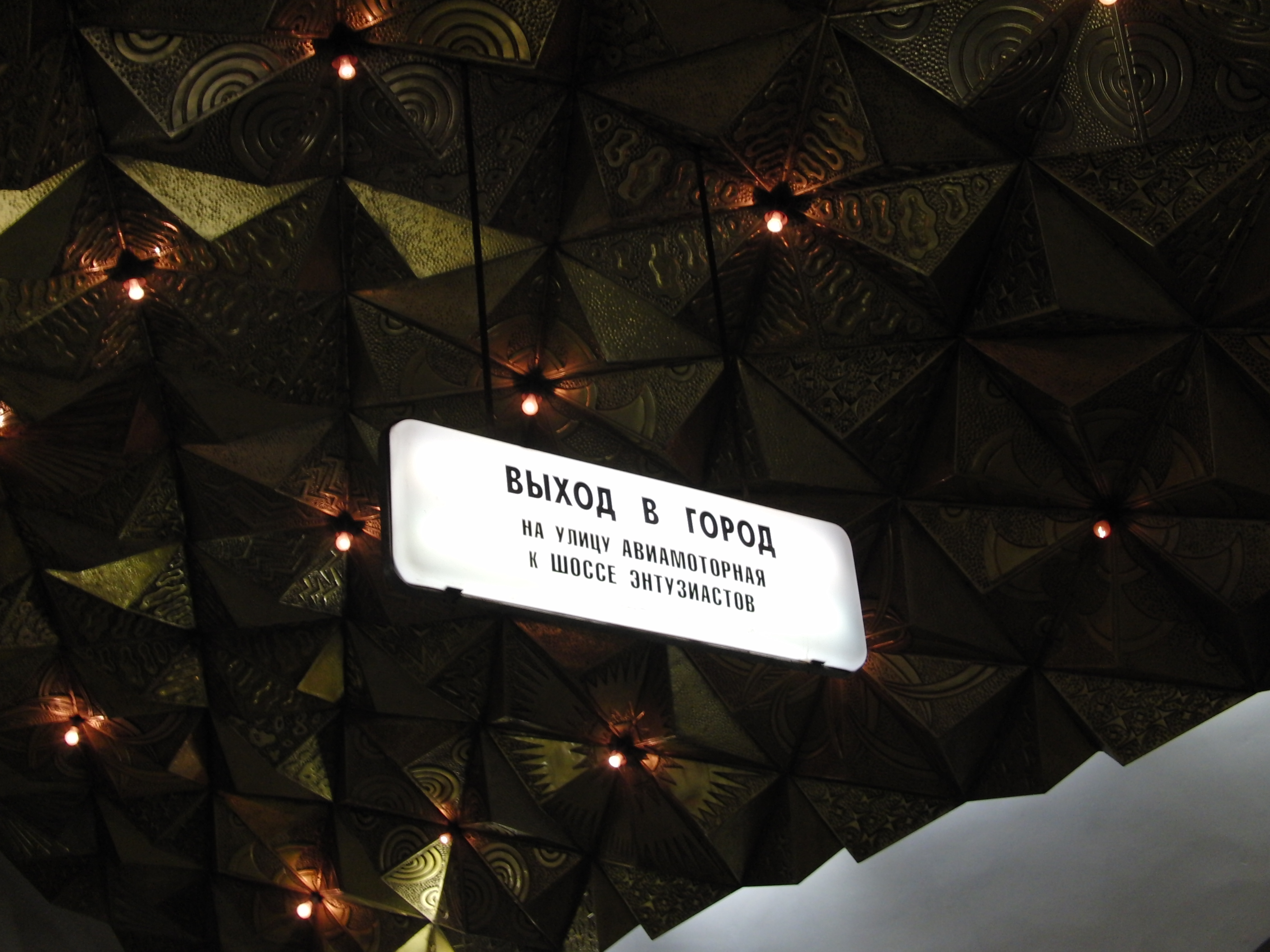 "EXIT TO THE CITY" sign